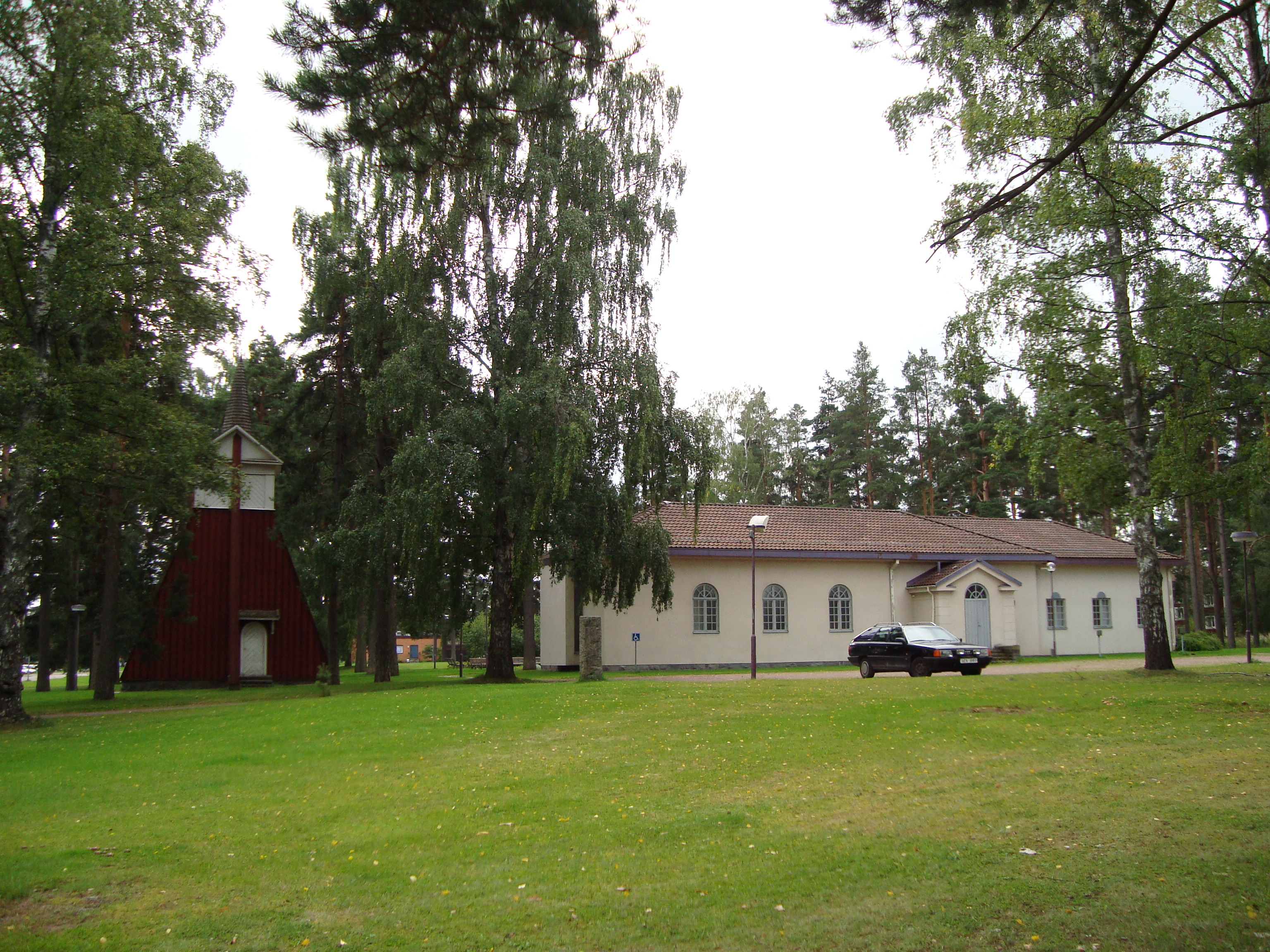 Church of Kvarnsveden, Borlänge, Sweden